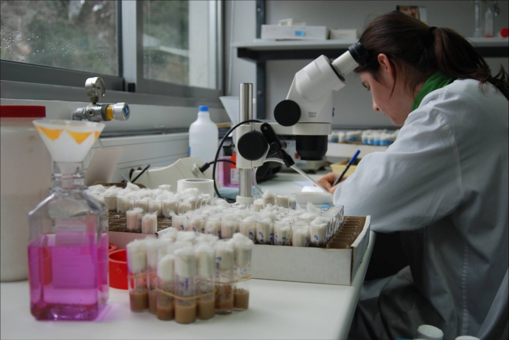 Research lab at the University of Porto.